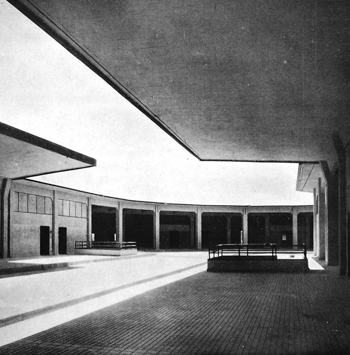 Madrid old Fruits and Vegetables Market, Legazpi square, 1935. Architect: Javier Ferrero